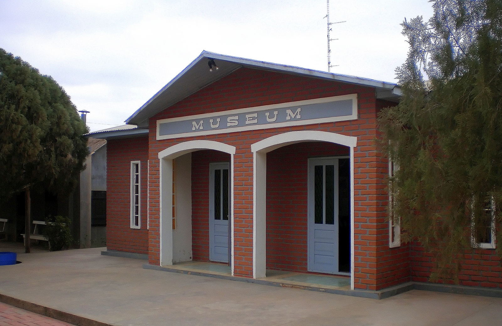 City museum in Loma Plata, Paraguay